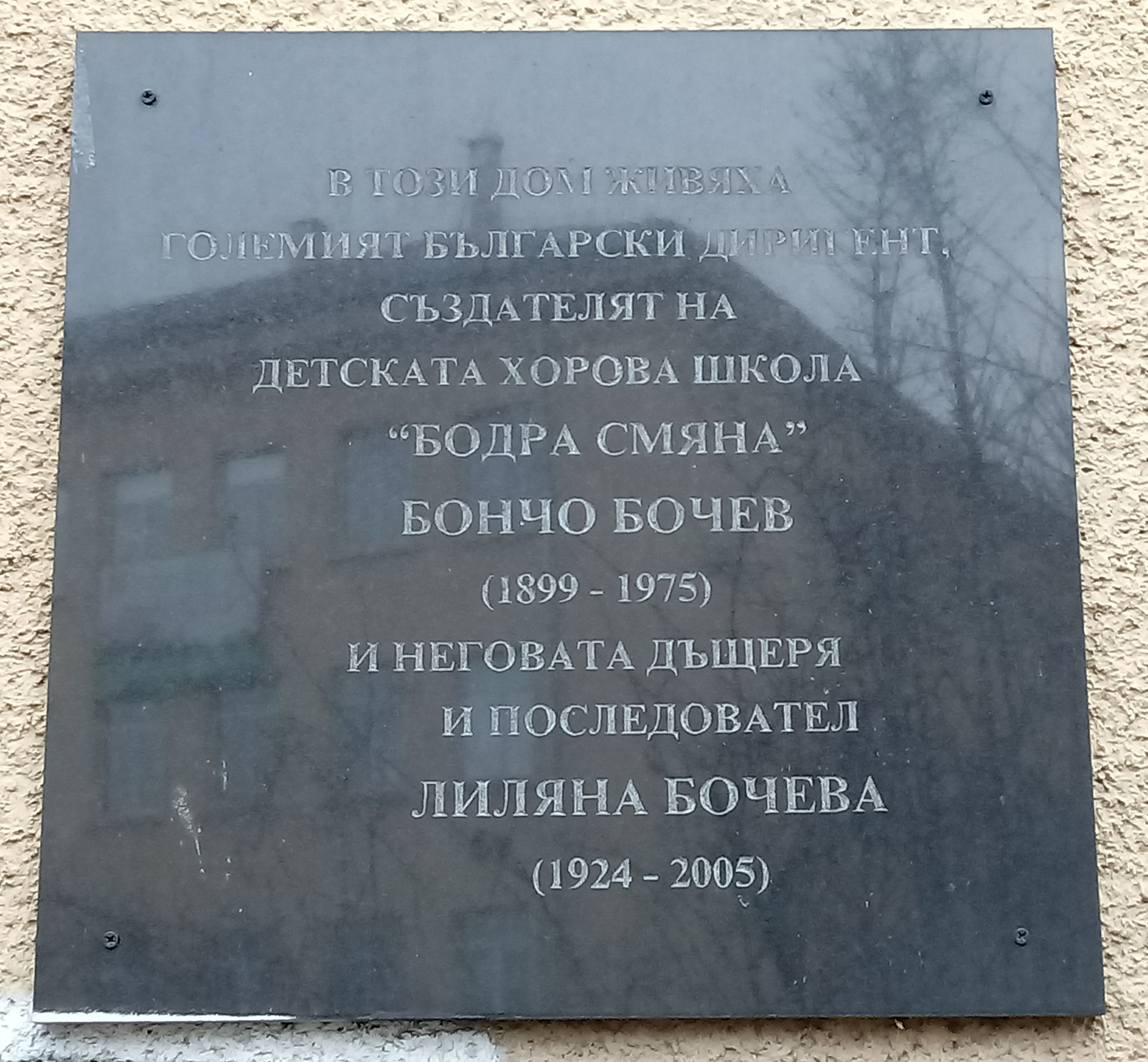 Boncho Bochev & Lilyana Bocheva memorial plaque, Geo Milev Str., Sofia